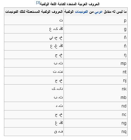 Wolof West African Arabic script crop